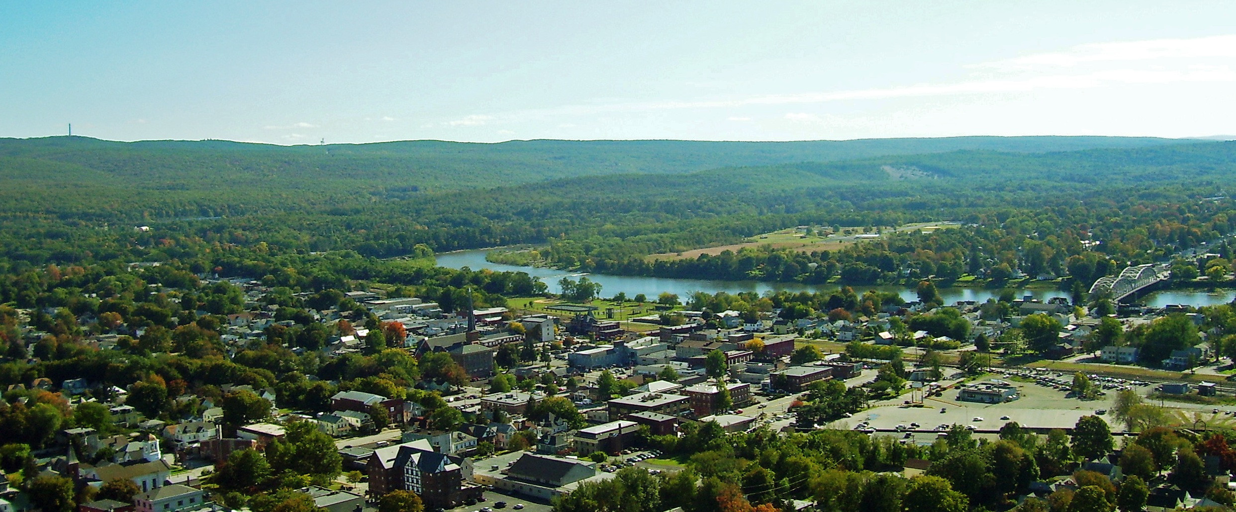 Photographed 2006-10-06 from the Elks-Brox Park overlook by Daniel Case